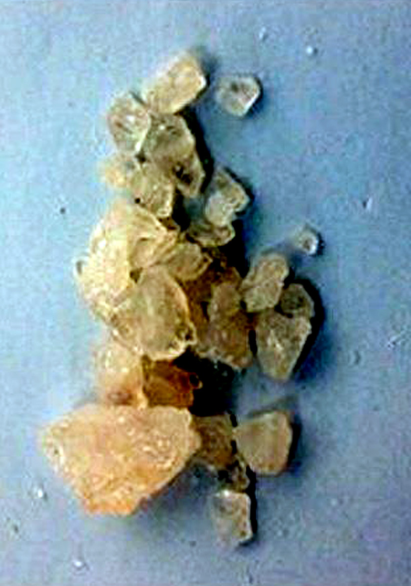 "Molly" in "Moon Rock" form